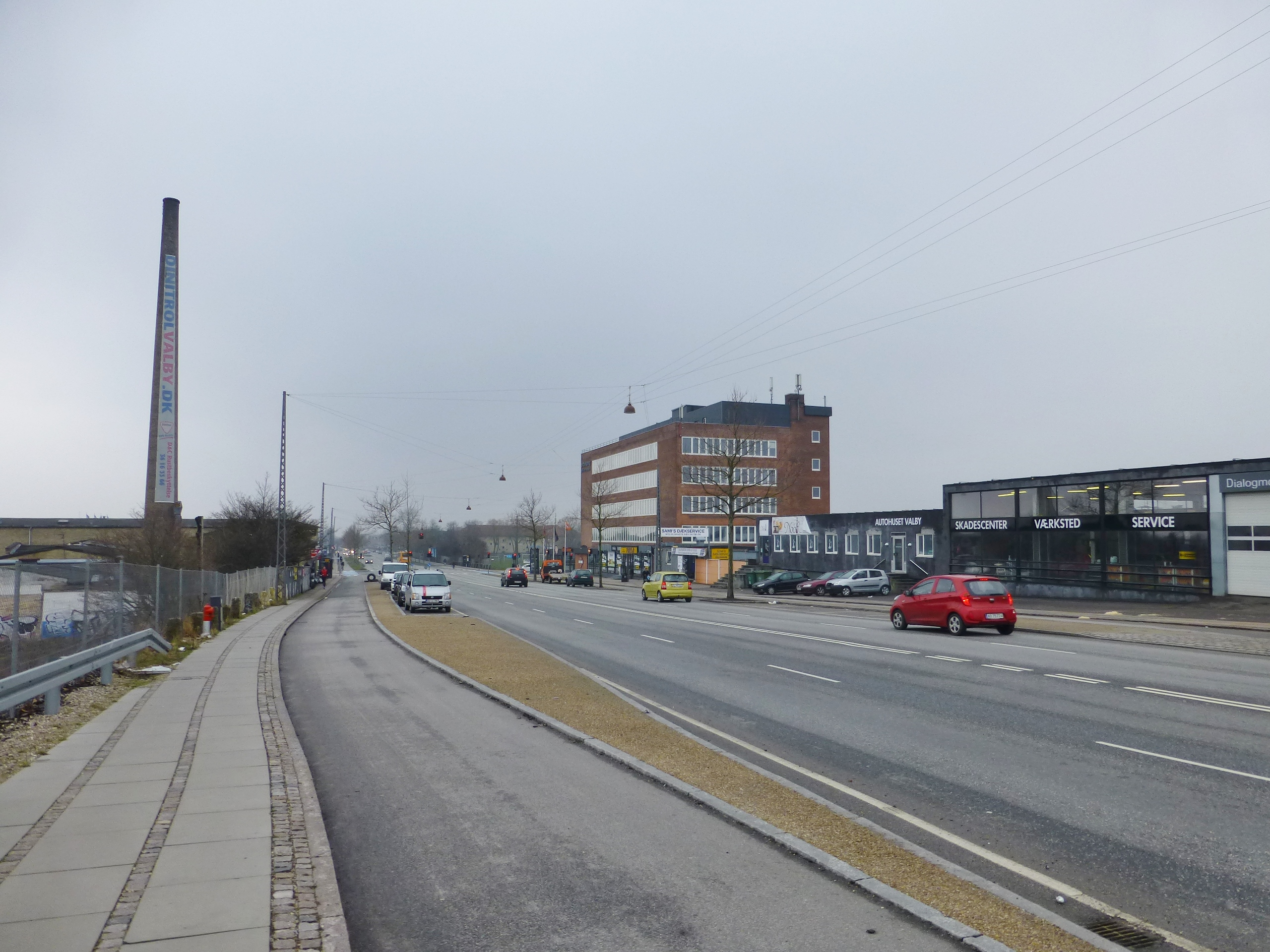 The street Gammel Køge Landevej at Ny Ellebjerg Station in Valby in Copenhagen.